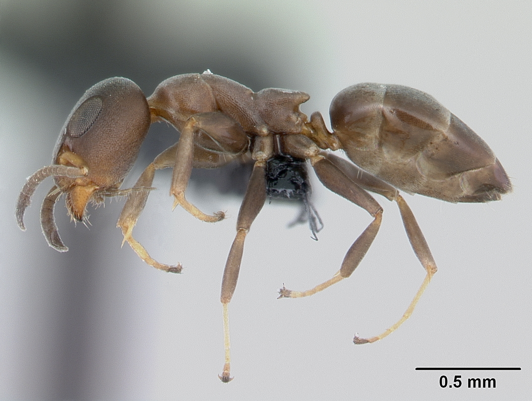 Profile view of ant Turneria bidentata specimen casent0069986.